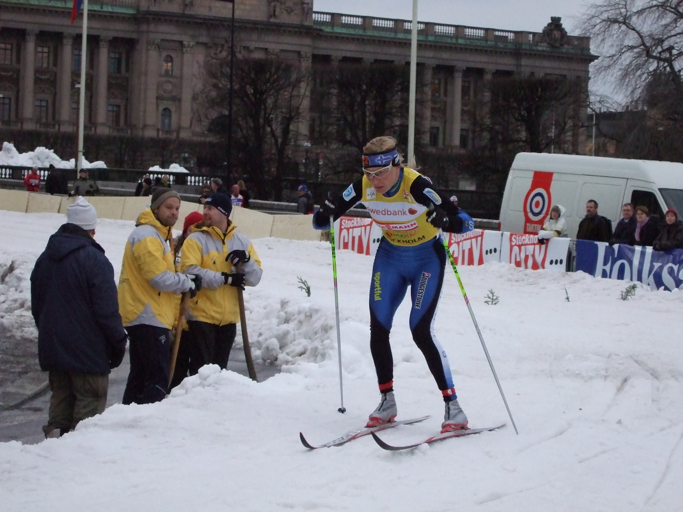 Virpi Kuitunen at the Royal Castle World Cup sprint in Stockholm, Sweden